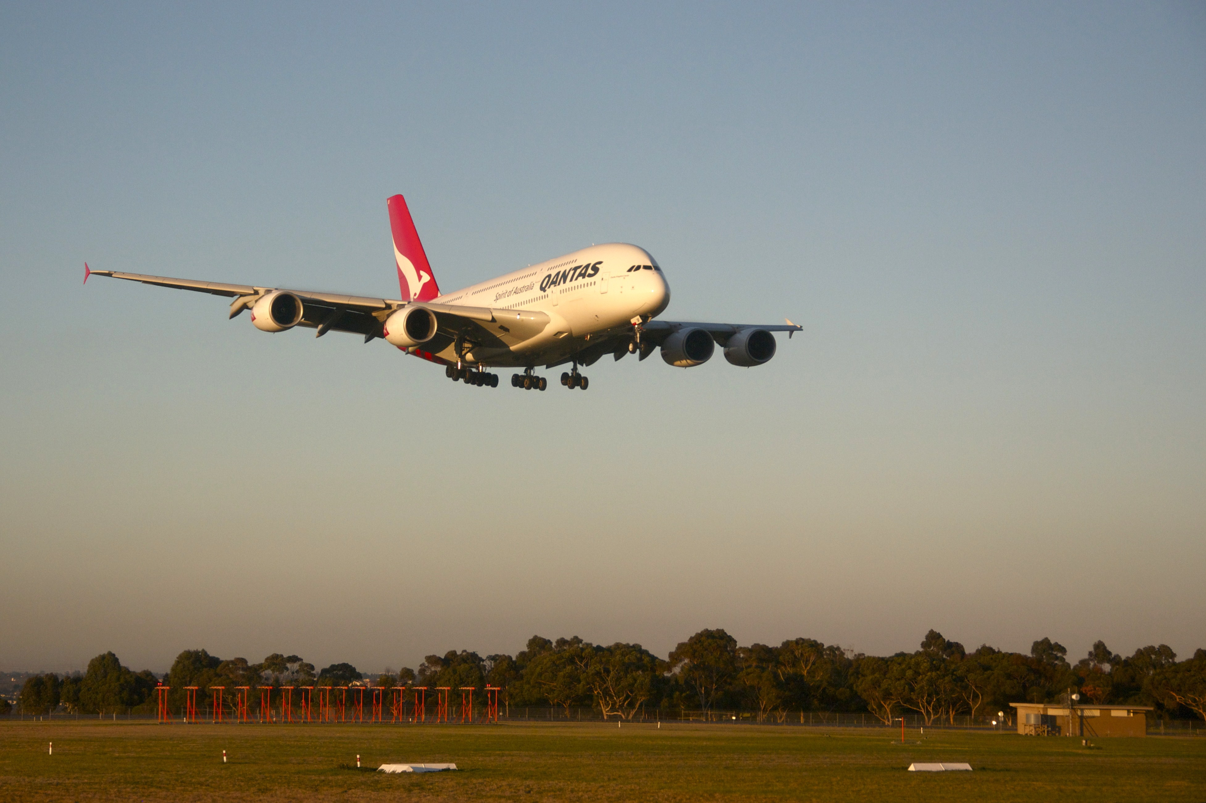 A QANTAS A380 lands at Melbourne Airport on the morning of Saturday 25 June 2011. Taken from on board Virgin Australia flight DJ817, on the taxiway.